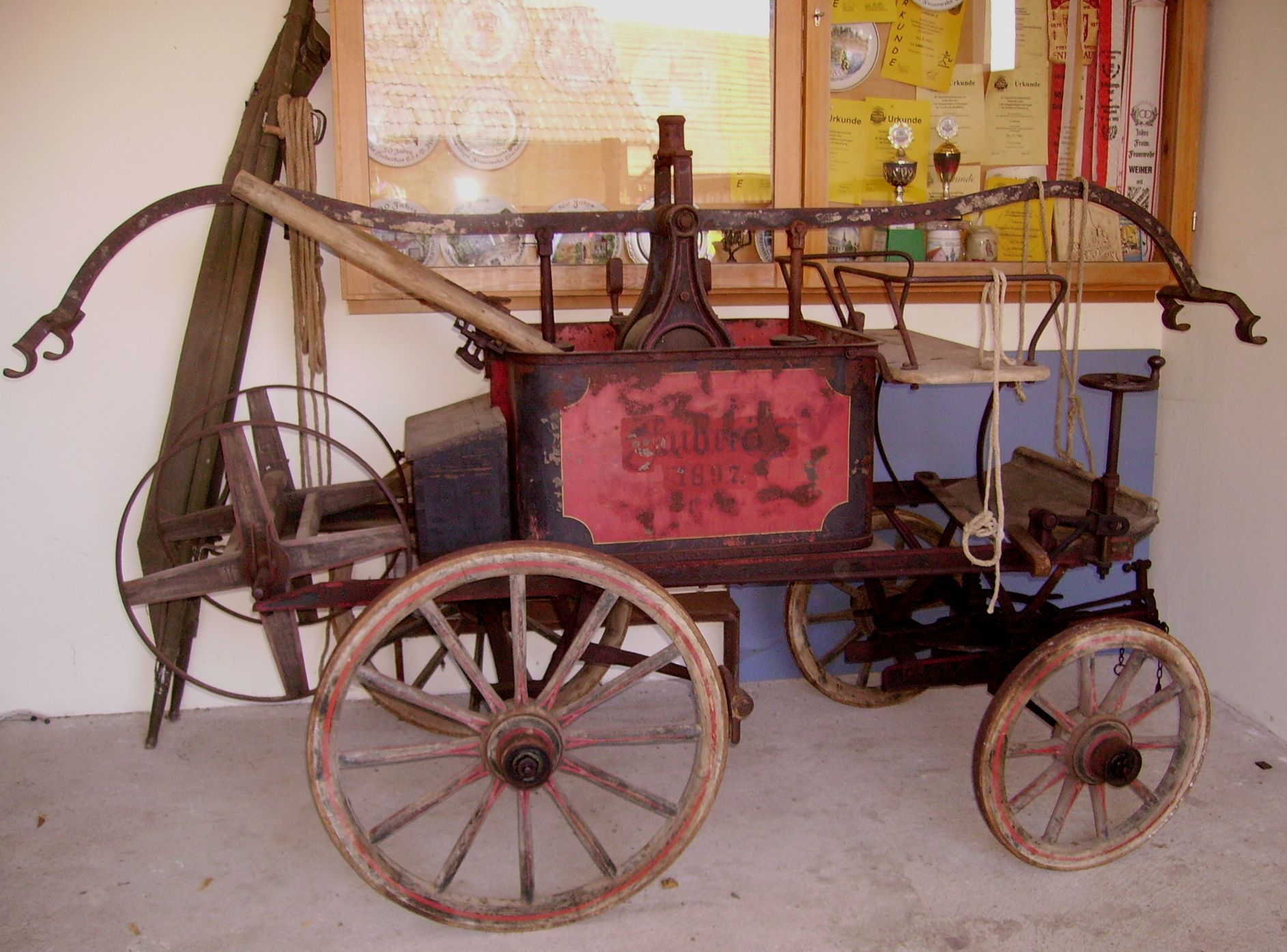 Laibarös (village) in Germany.